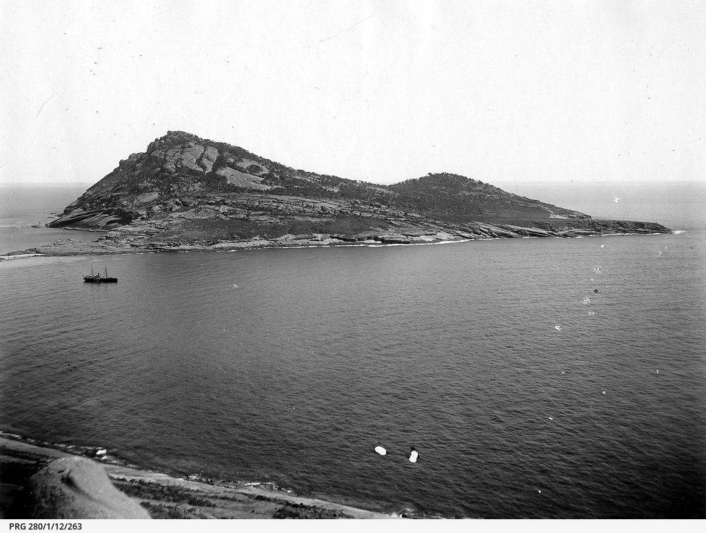 A distant view of the Pearson Isles off the west coast of Eyre Peninsula with the S.S. 'Governor Musgrave' at anchor; Searcy notes that the site possessed good fishing and the island contained large quantities of a rare species of wallaby